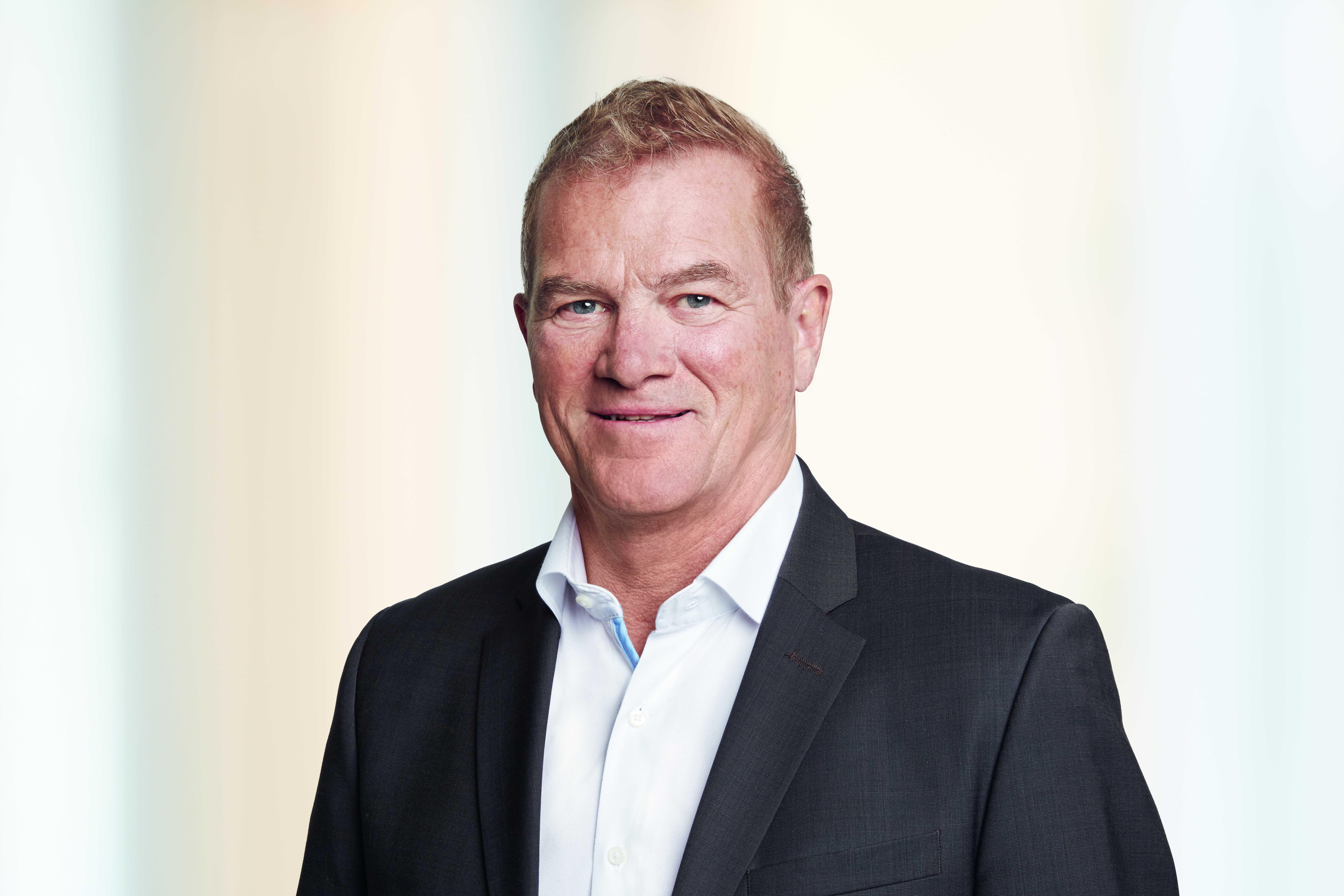 Paul Schuler is CEO at Sika AG